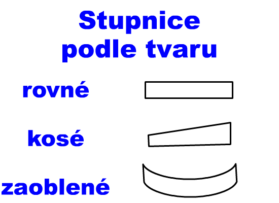 Schodistove stupnice - 3 základní tvary